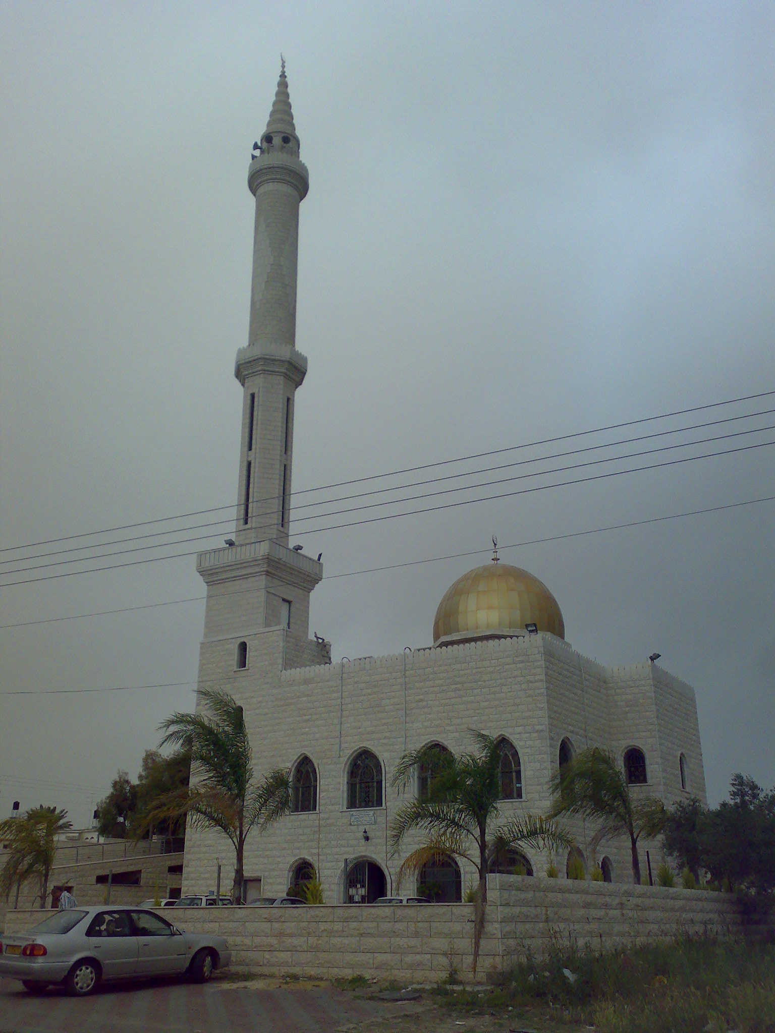 Alserat Mosque (جامع الصراط) is a recent mosque in Baqa el Garbiyya, built in 2001. This mosque is the biggest project totally financed from donations to be done in Baqa.